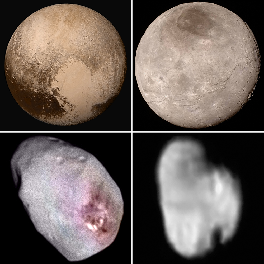 Images of Pluto and its moons by New Horizons